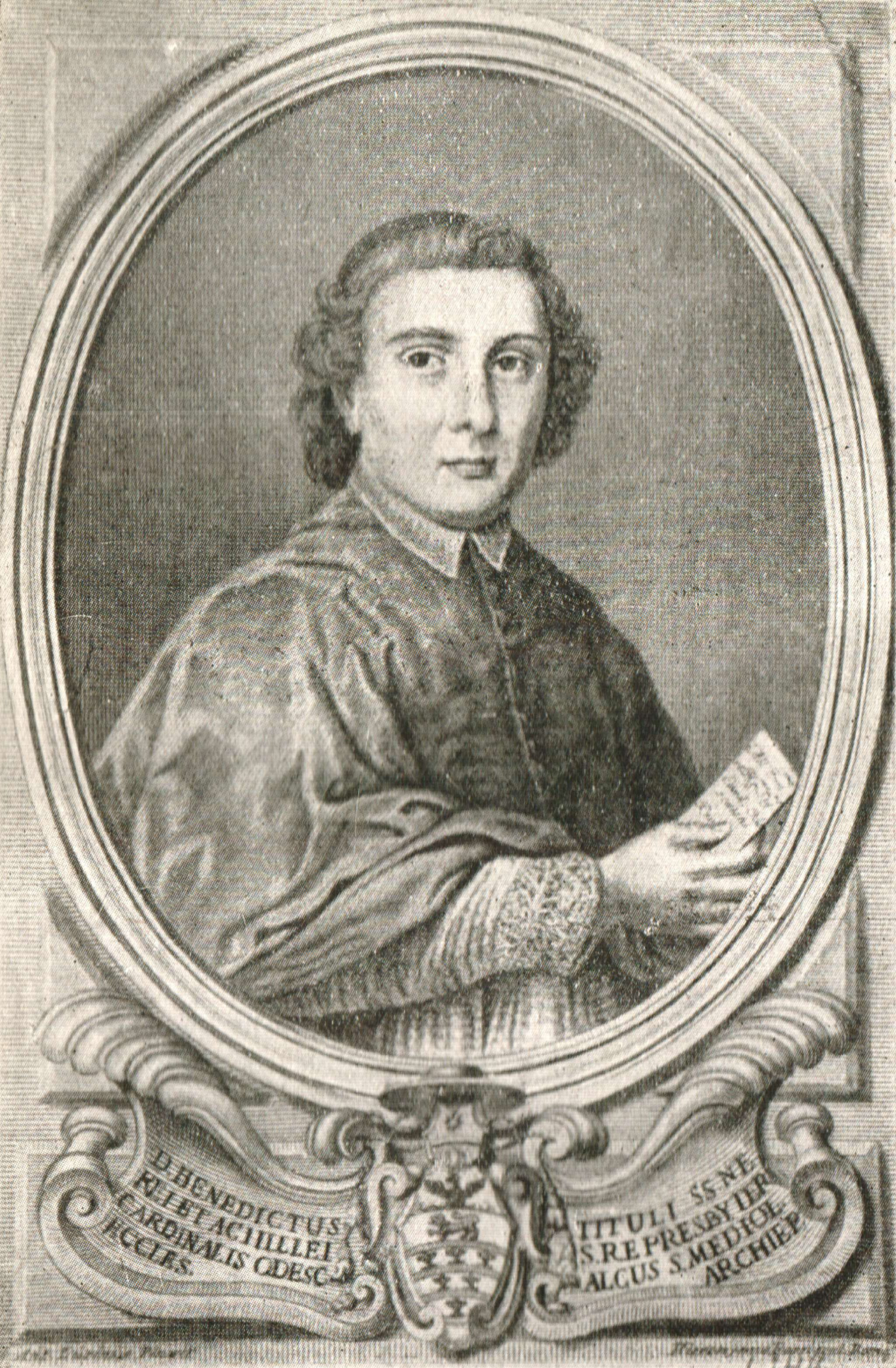 Benedetto Erba Odescalchi (1679-1740), Cardinal Archbishop of Milan